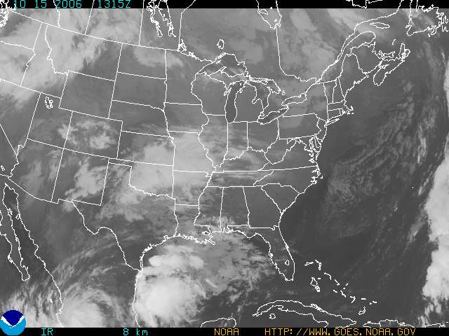 Infrared Satellite Image from NOAA GOES Eastern Sector Image, taken 1315 UTC 15 October 2006.